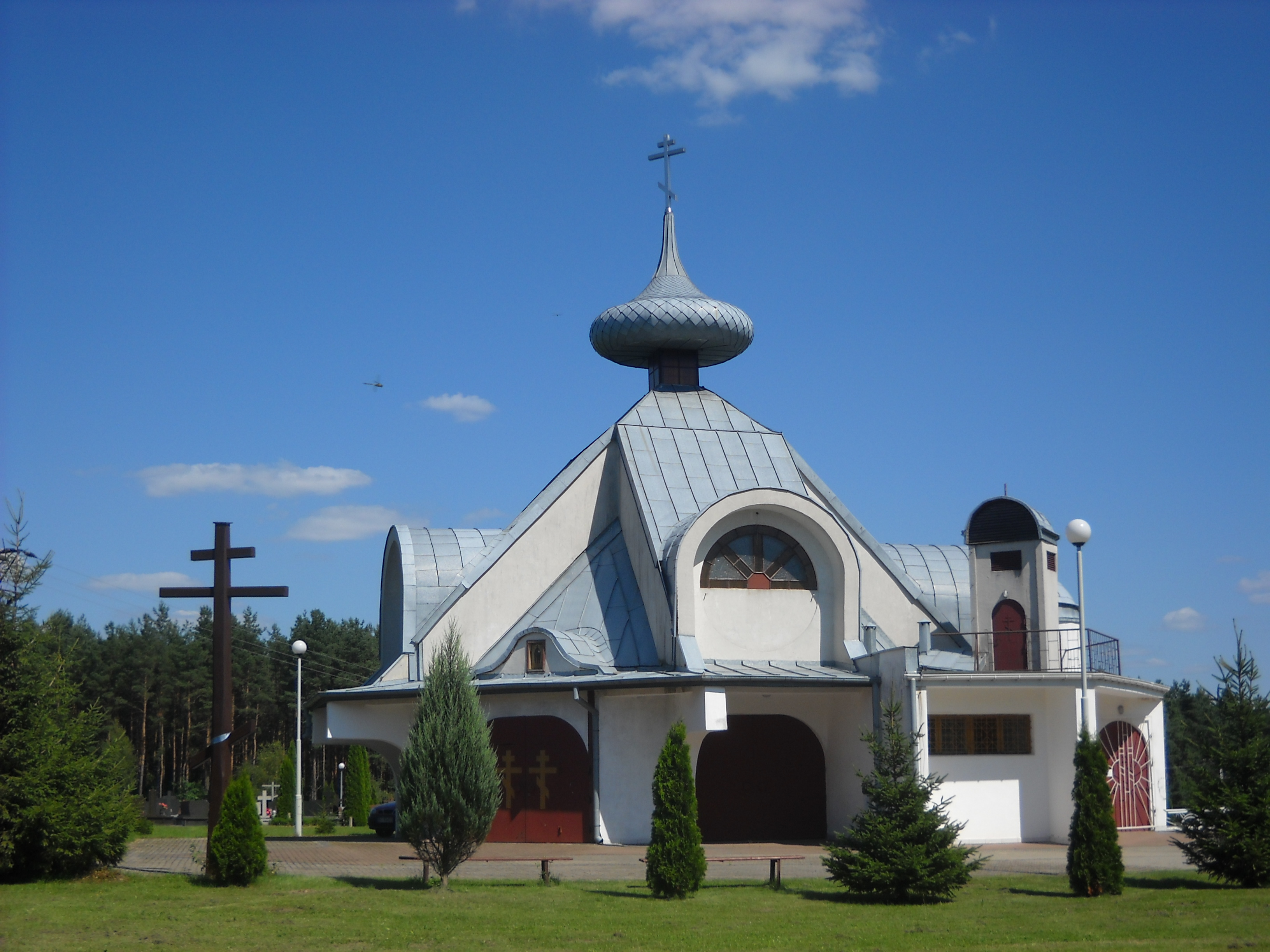 Orthodox cemetery church of St. Euphrosine in Białystok